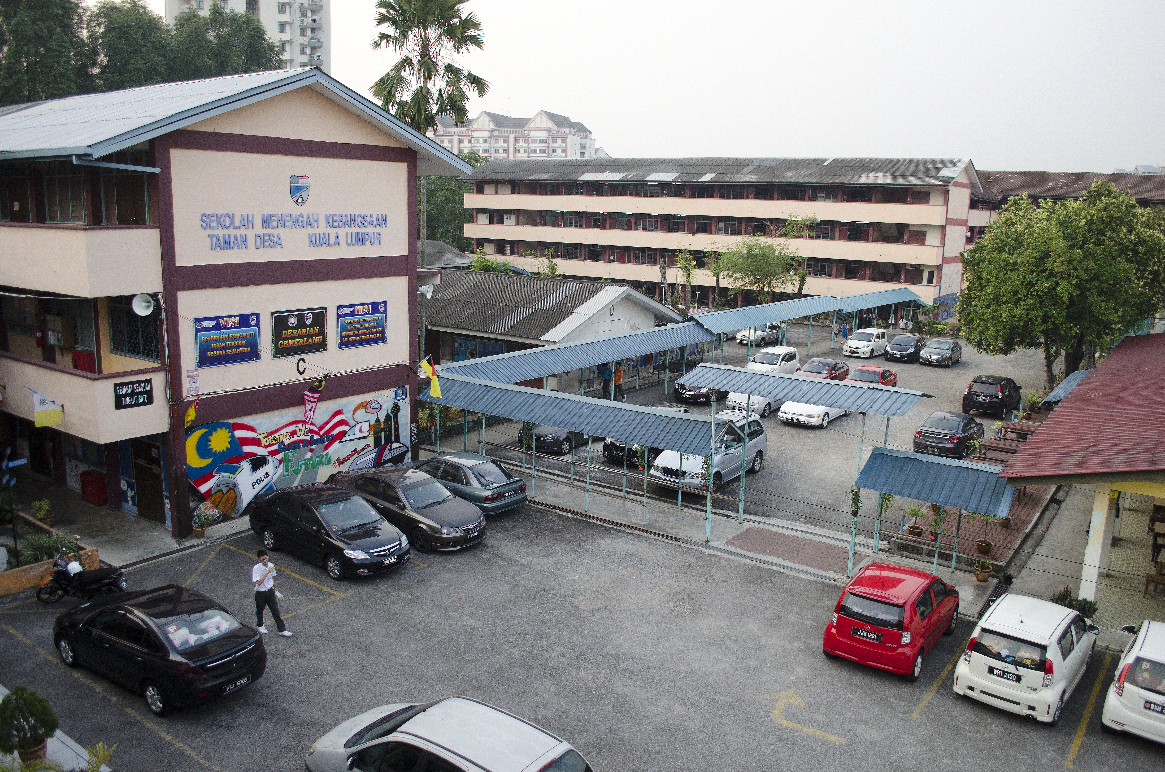 Overview of SMKTD